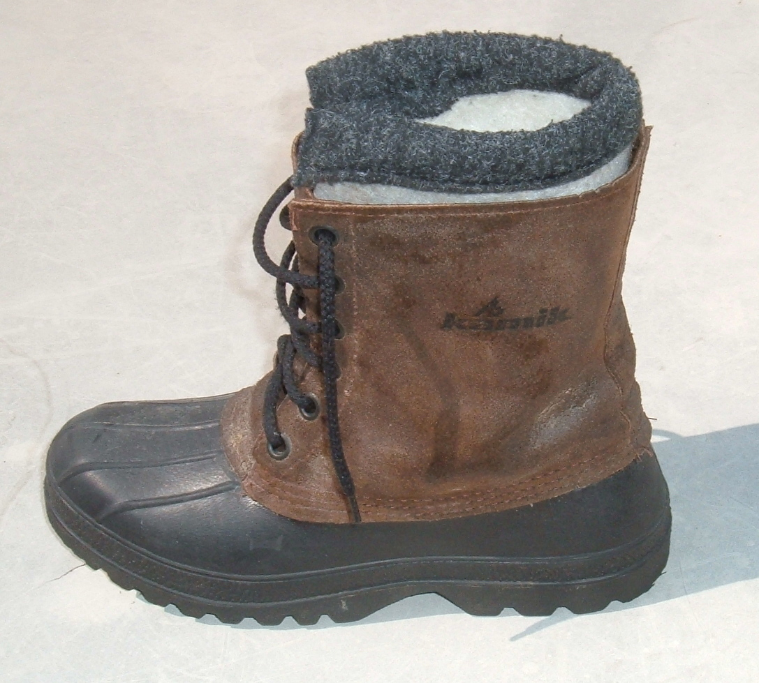 Winter boot, left. One of a series of common objects I photographed in the summer of 2005 to illustrate Basic English picture wordlist. --agr 21:08, 3 August 2005 (UTC)